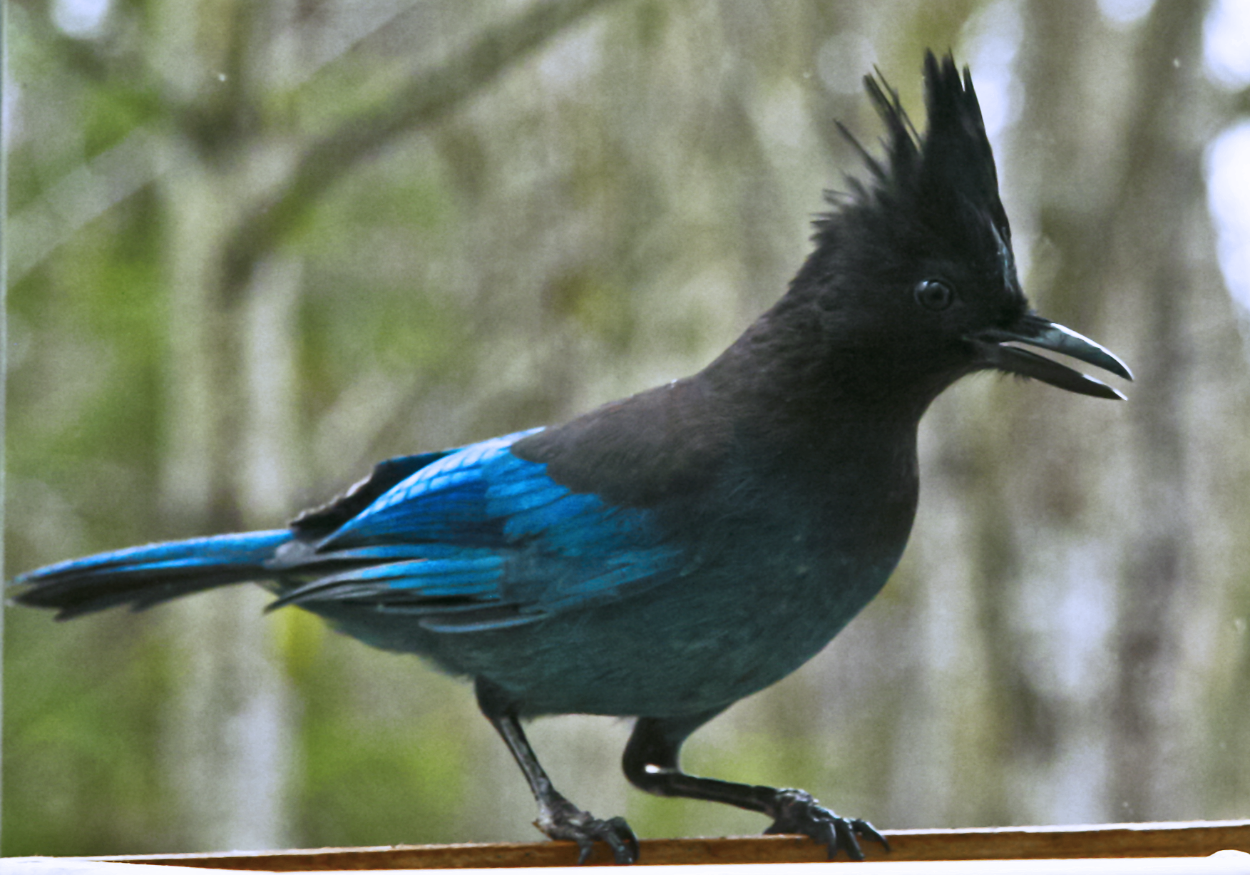 Steller's Jay (Cyanocitta stelleri)